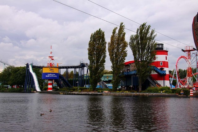 Storm Force 10 at Drayton Manor Park